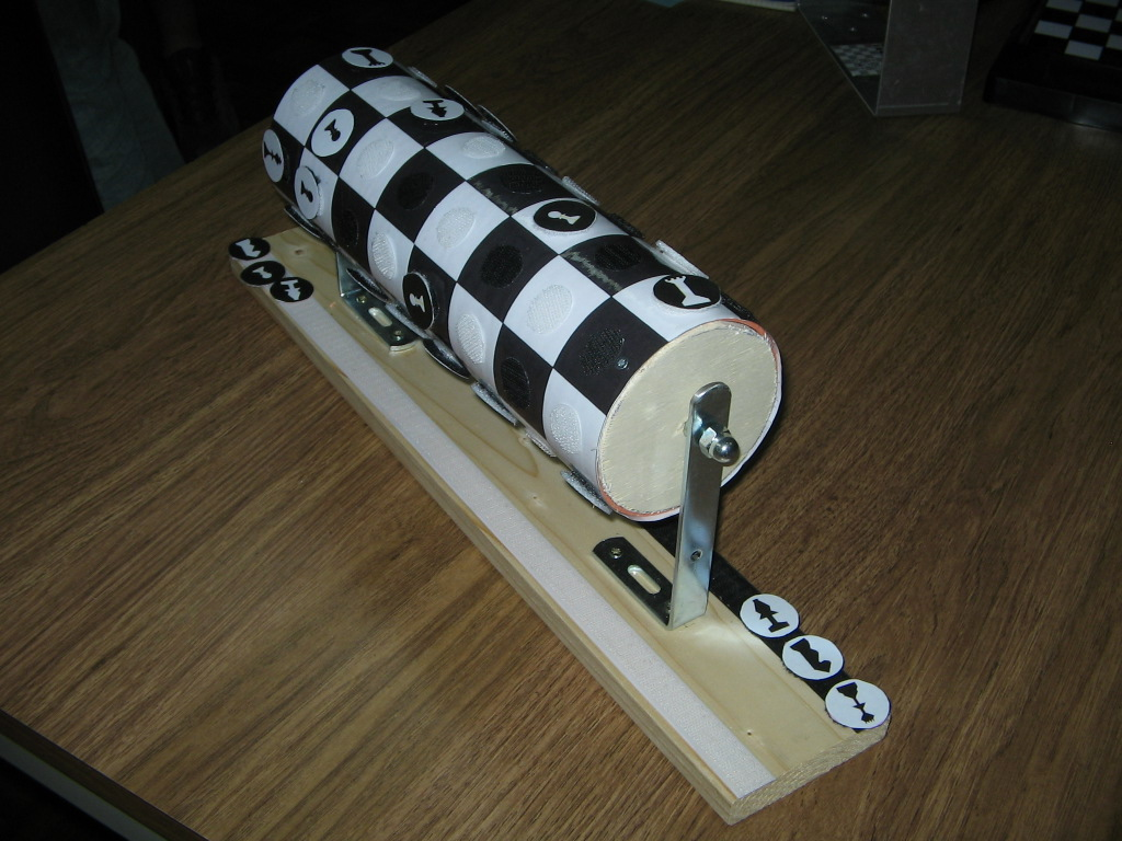 A cylindrical chessboard. Chessboard made by Emanuela Ughi (University of Perugia).